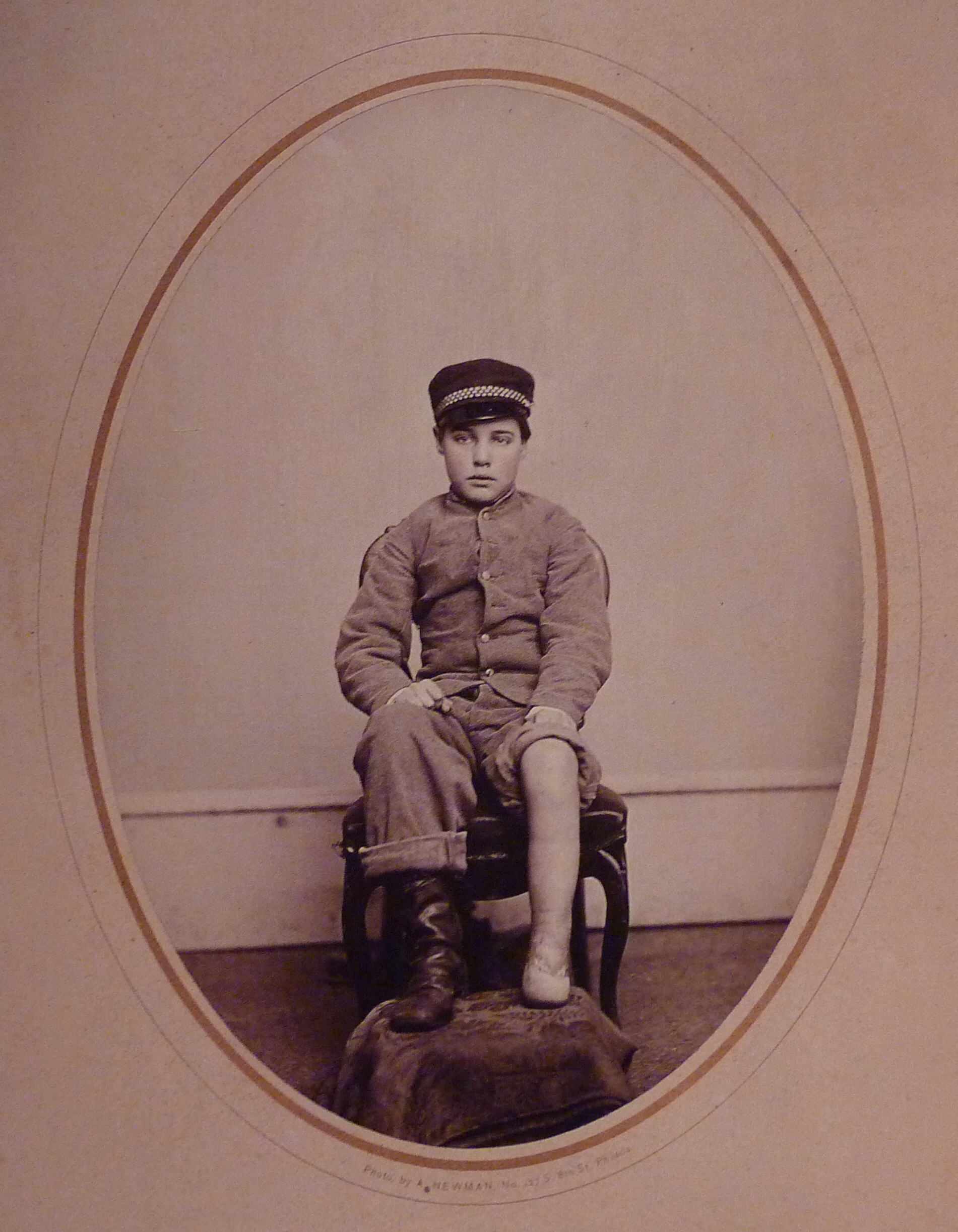 Pirogov amputation, performed by Thomas George Morton